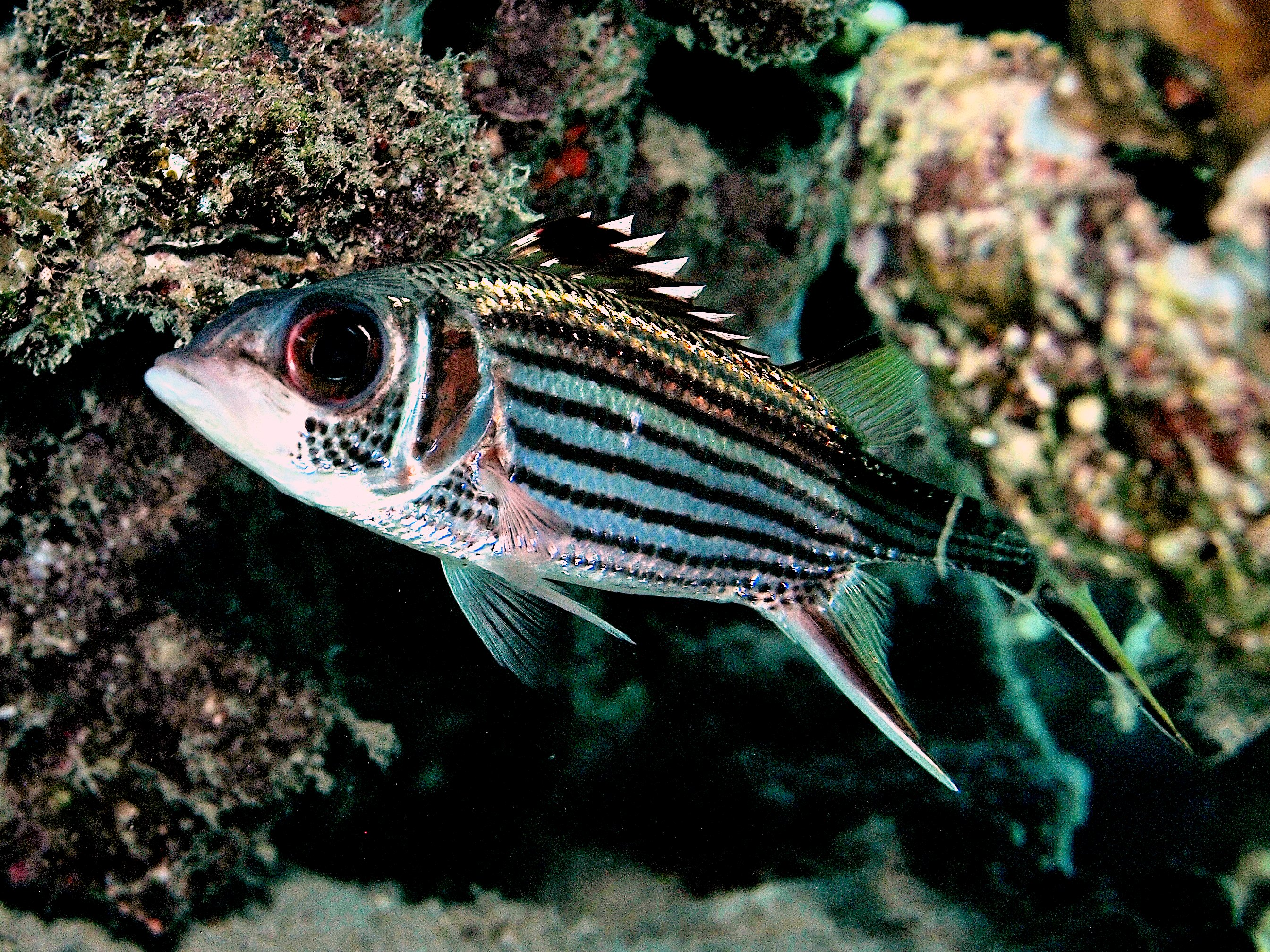 Sammara squirrelfish, Neoniphon sammara (Forsskål, 1775)